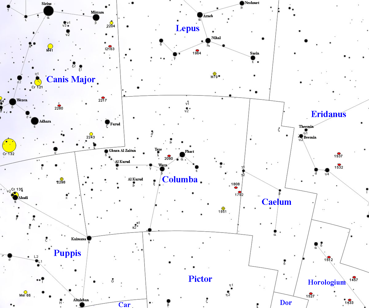 Columba constellation map, with DSOs